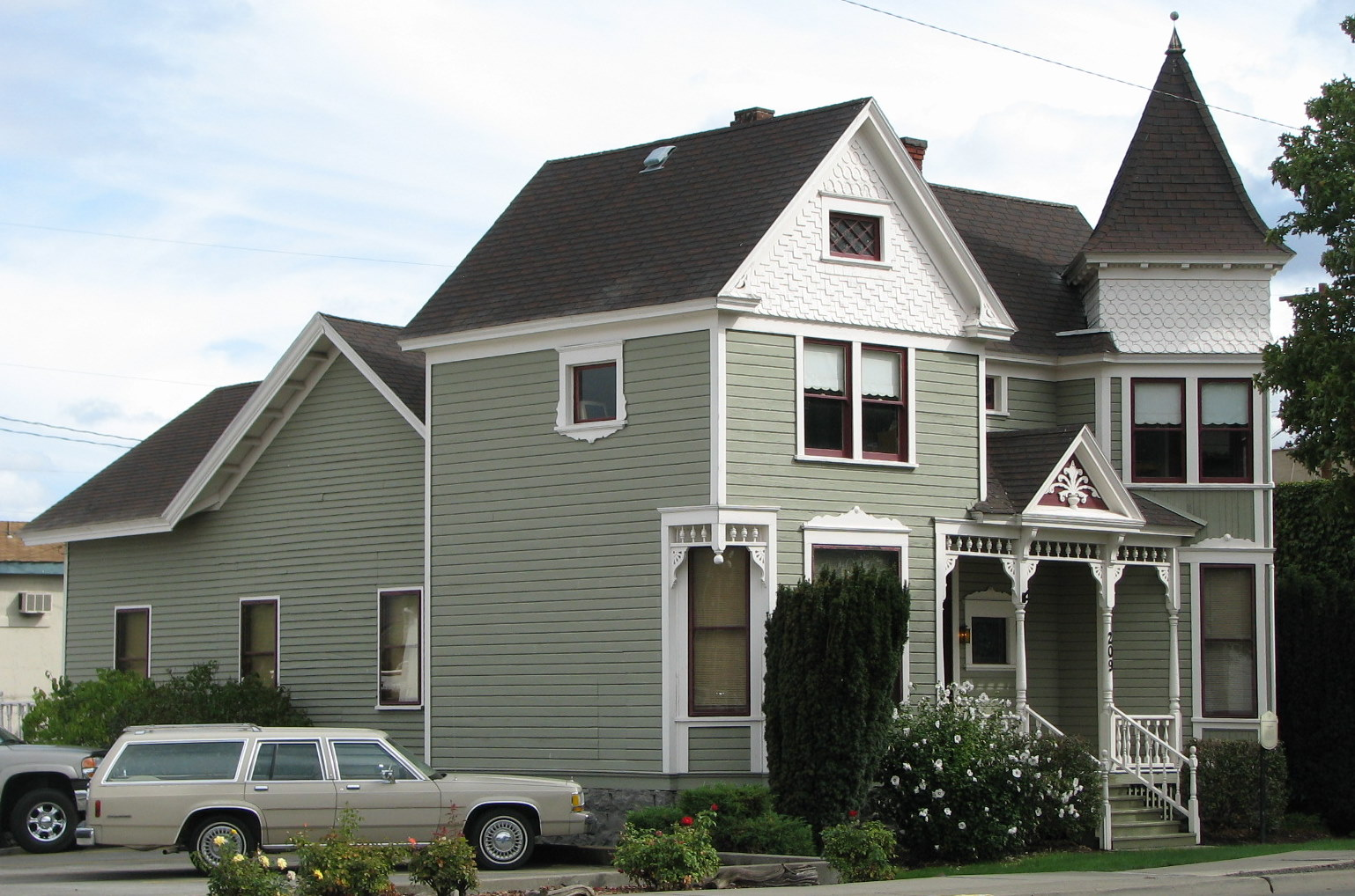 The historic John L. Thompson House (built ca. 1889), located at 209 West 3rd Street in The Dalles, Oregon, United States, is listed on the US National Register of Historic Places.